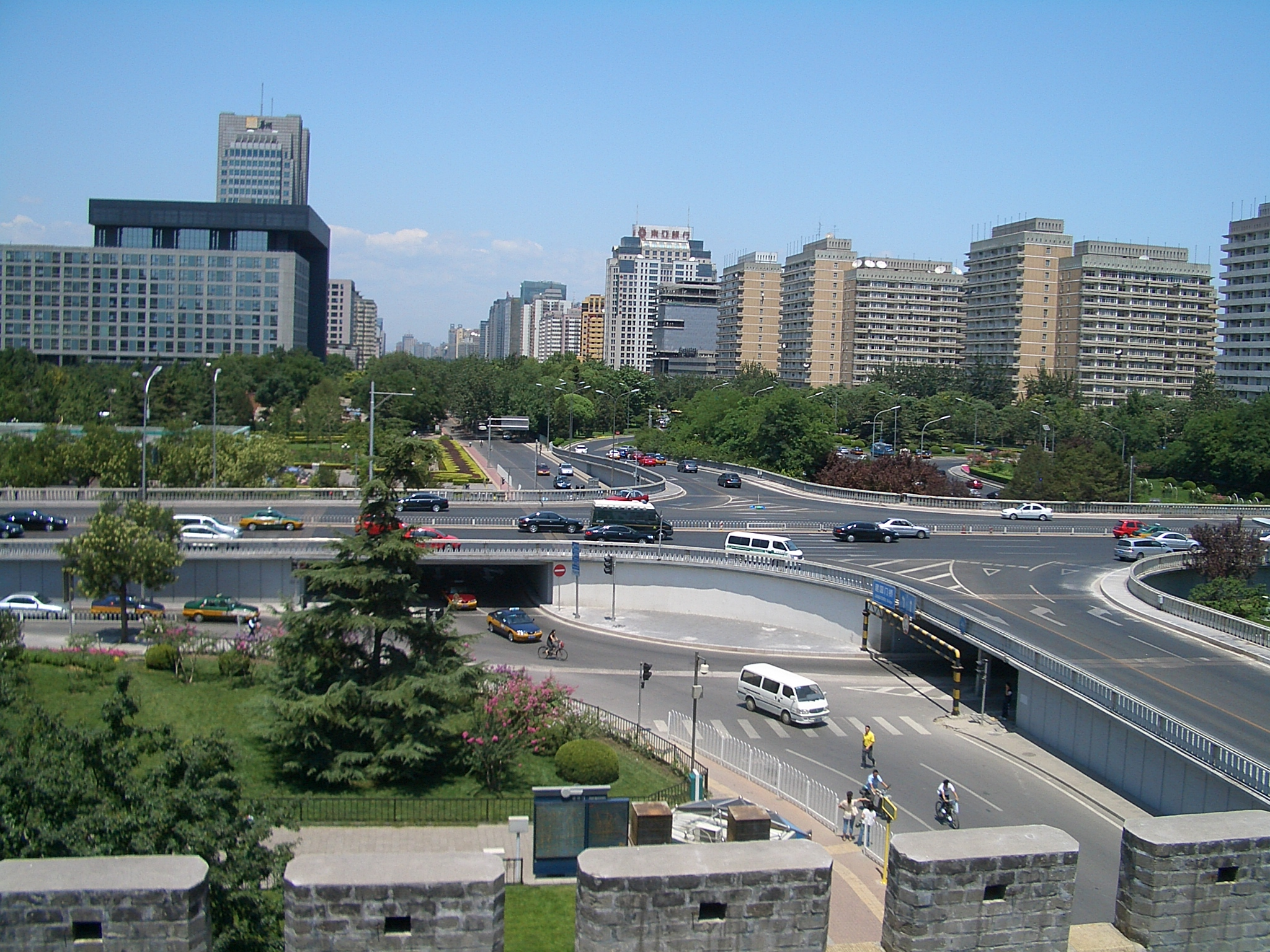 On the grounds of Beijing's Ming-era observatory, looking north from the platform on top of the observatory tower. The street that runs from the left to the right (west to east) is Jianguomen Nei Dajie; it crosses the 2nd Ring Road (whose main lanes go underground, under the square, but on- and off-ramps are visible)